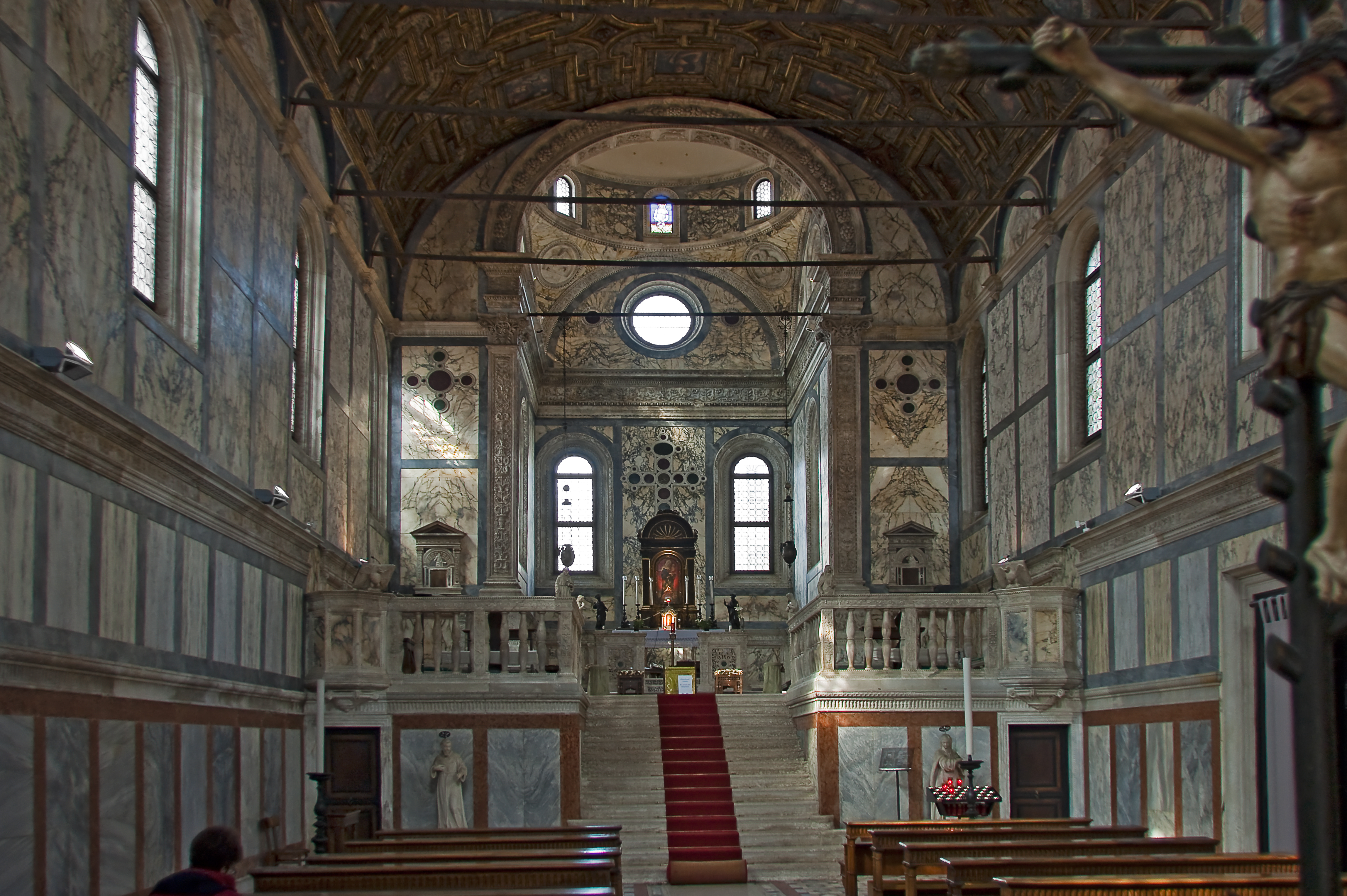 Church of Santa Maria dei Miracoli in Venice; inside.